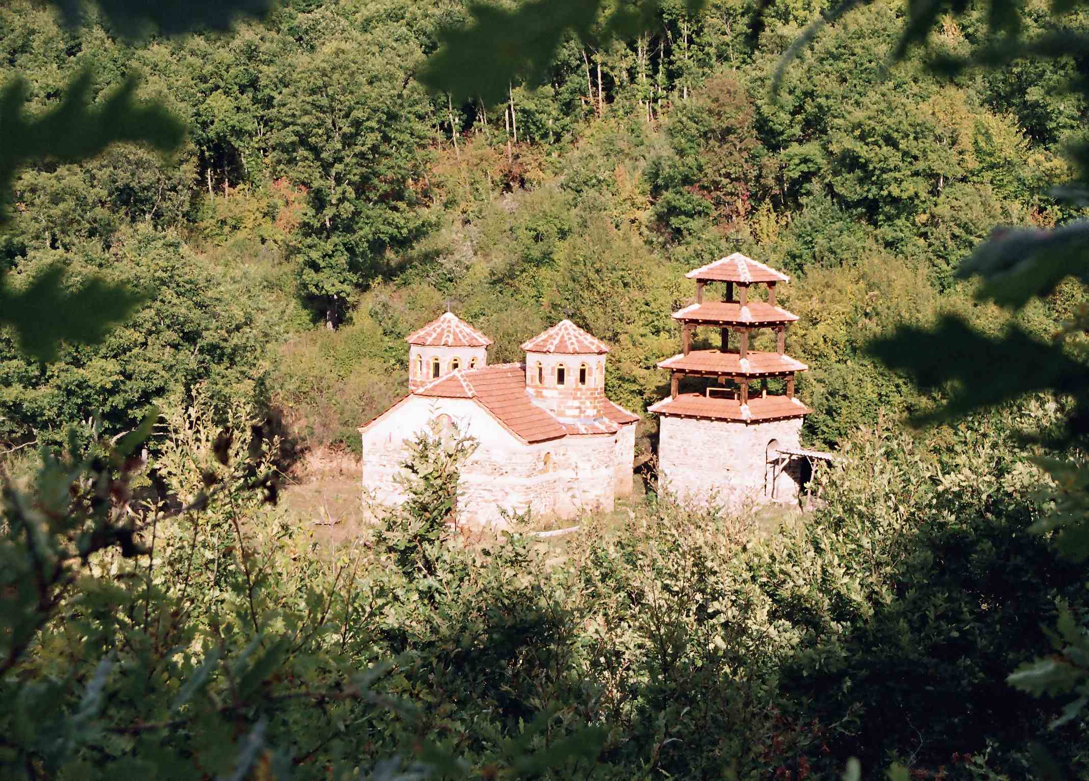 Sv.Toma_Graiste